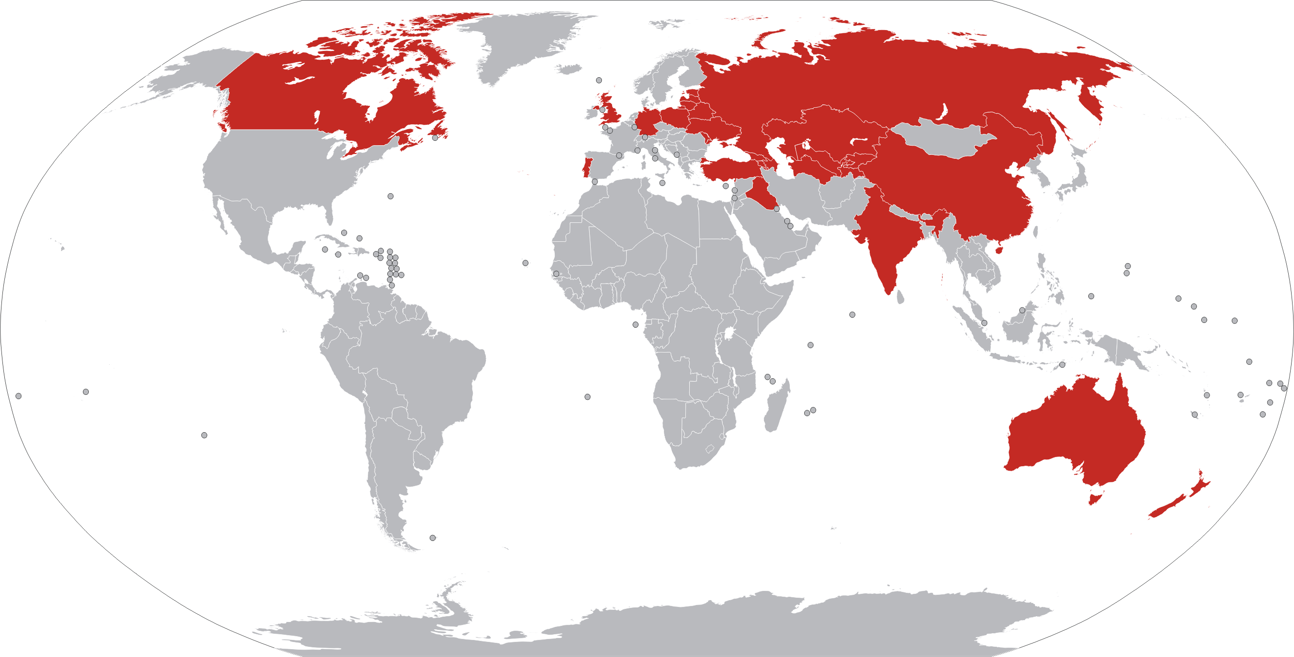 Map of Valentine tank world operators